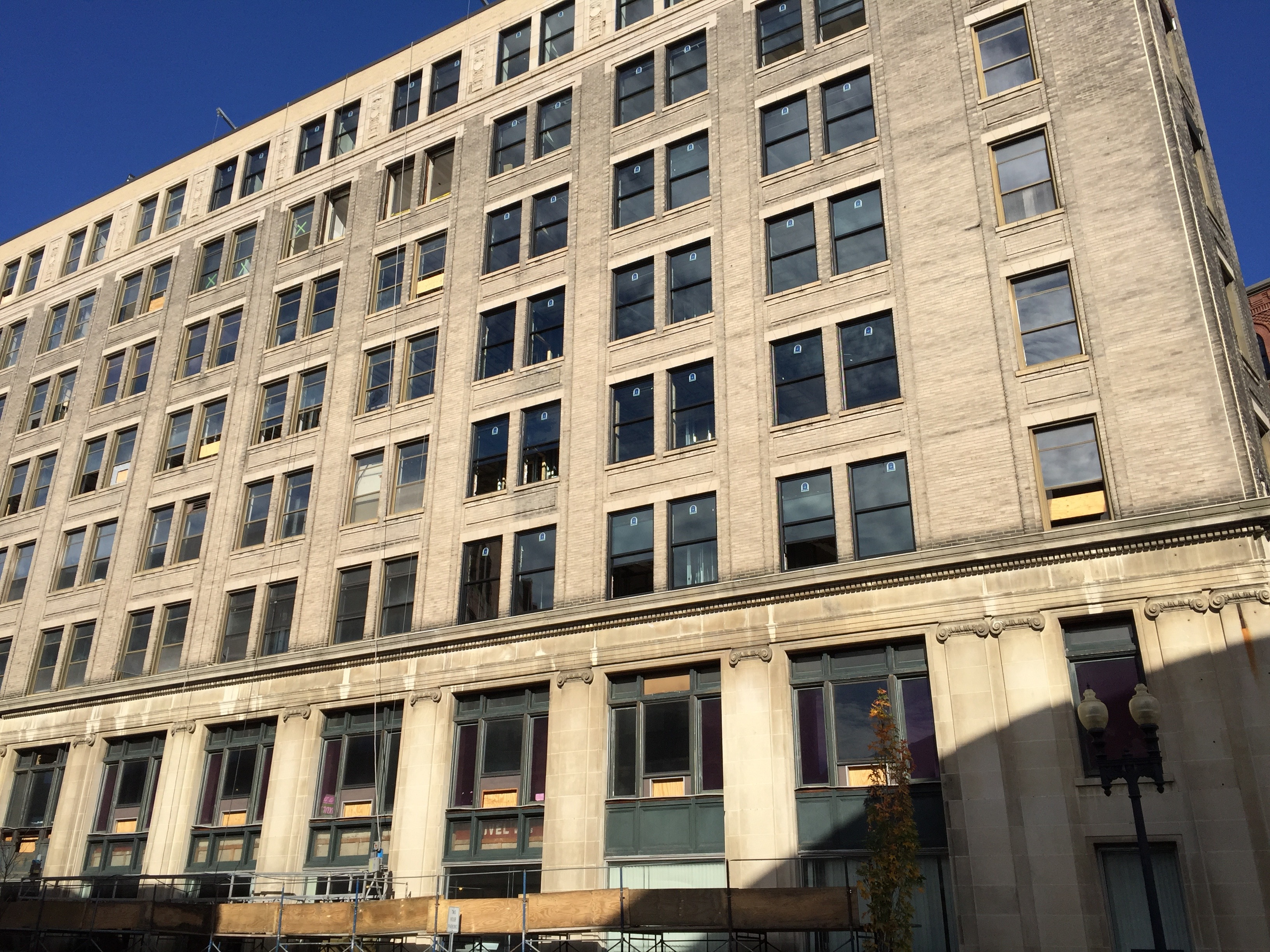 Lynn, MA: Flatiron Building Under Renovation